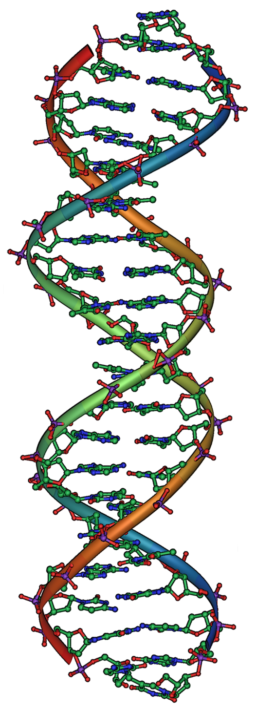 An overview of the structure of DNA.